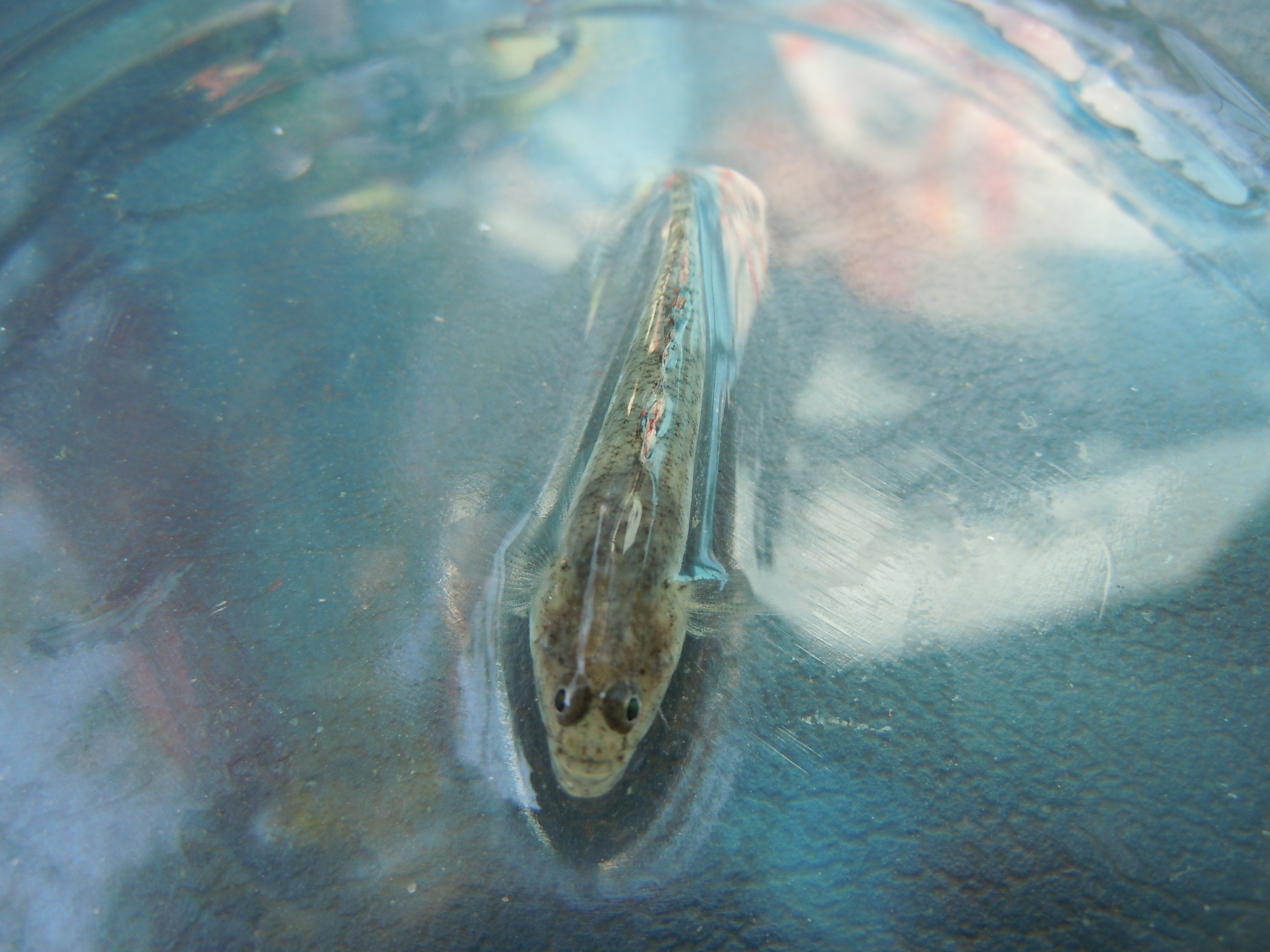 Longtail dwarf goby (Knipowitschia longecaudata) from the Dnieper Estuary, Ukraine